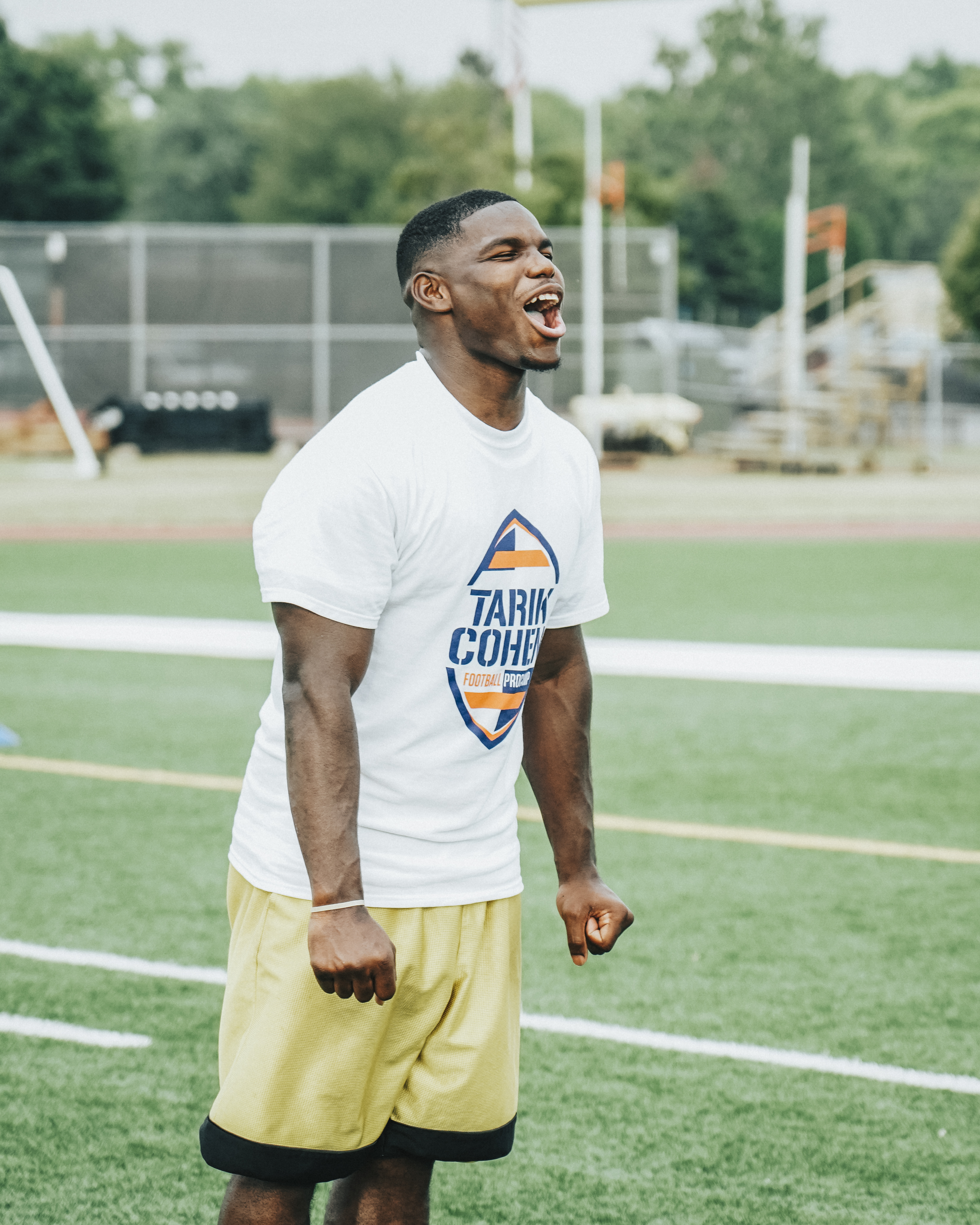 Tarik Cohen at his youth football camp in Elk Grove, IL on July 16, 2019. Captured by Cameron Good.